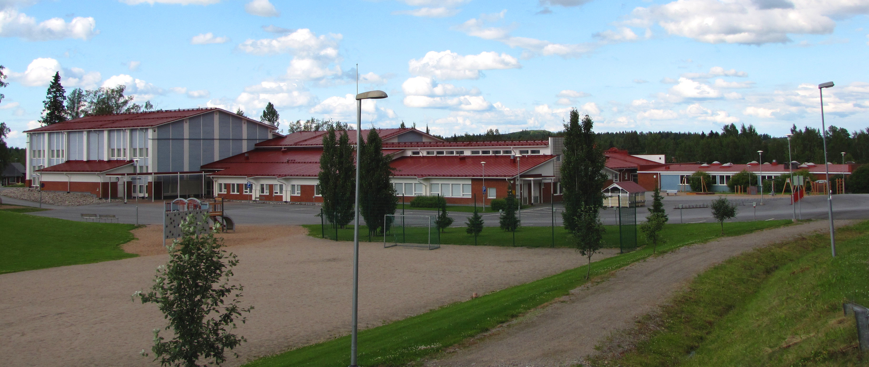 Jalasjärvi school centre in Jalasjärvi, Finland.